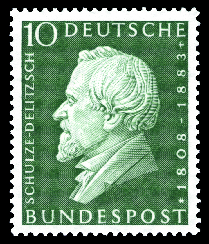 150th day of birth of Hermann Schulze-Delitzsch (1808-1883) Graphics by Hermann Eidenbenz Ausgabepreis: 10 Pfennig First Day of Issue / Erstausgabetag: 29. August 1958 Michel-Katalog-Nr: 293